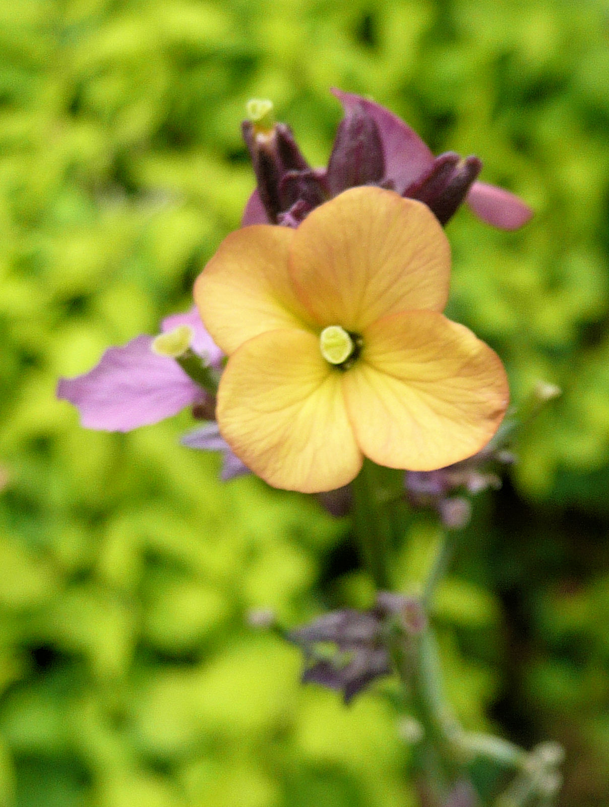 Erysimum (Perennial Wallflower) in a London Garden.